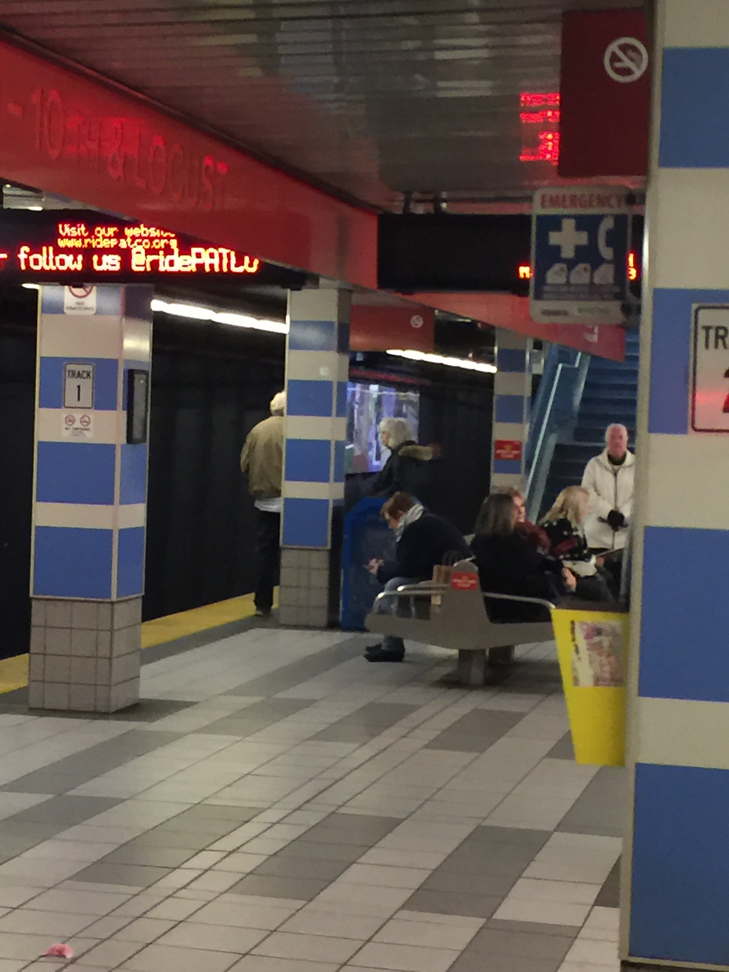 9-10 locust